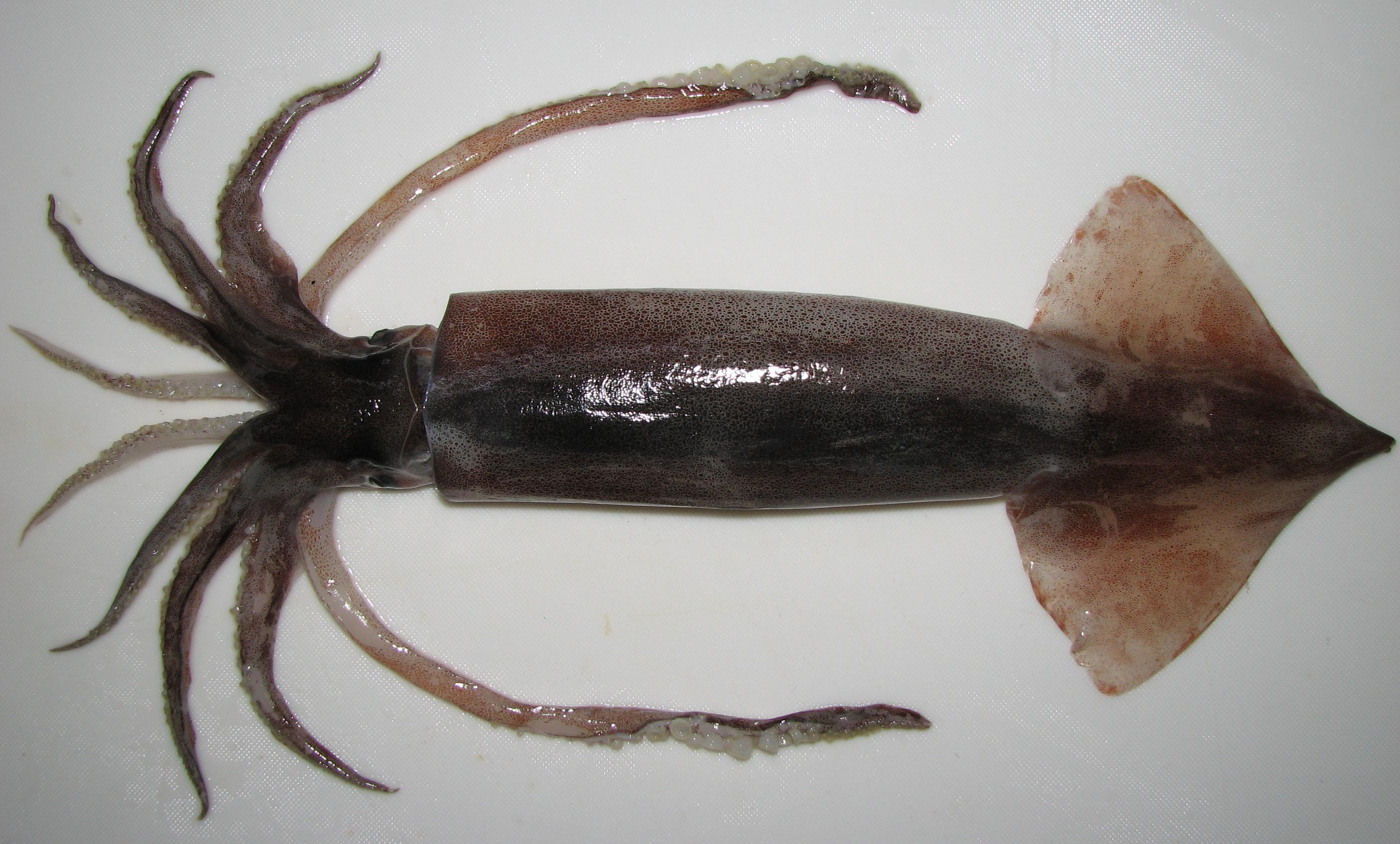 Todarodes pacificus(common squid)